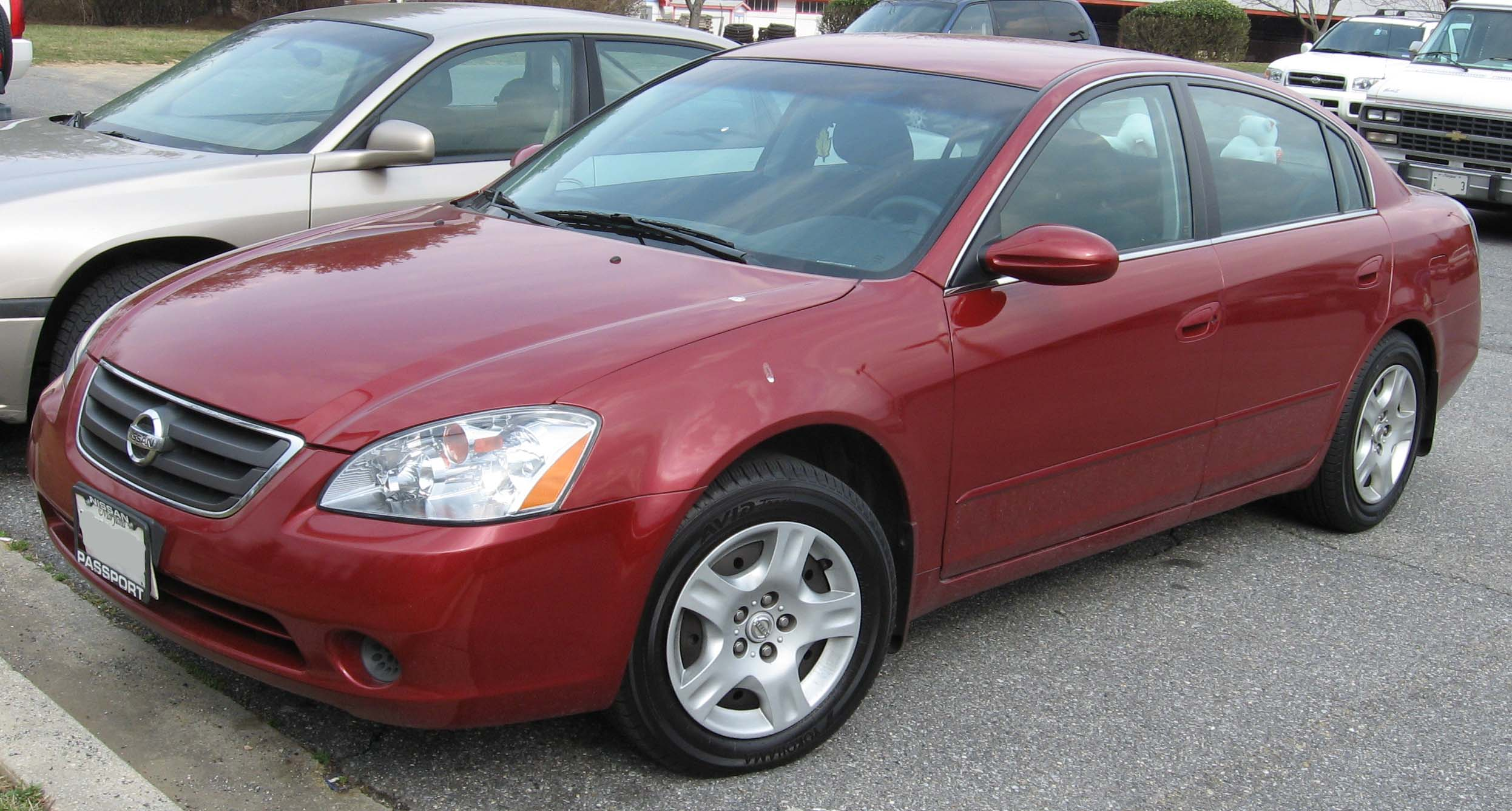 2002-2004 Nissan Altima photographed in USA.